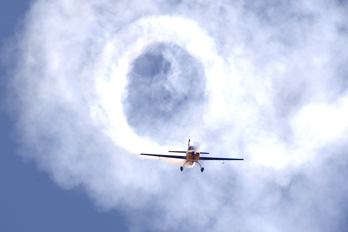 Extra 330 in flight.